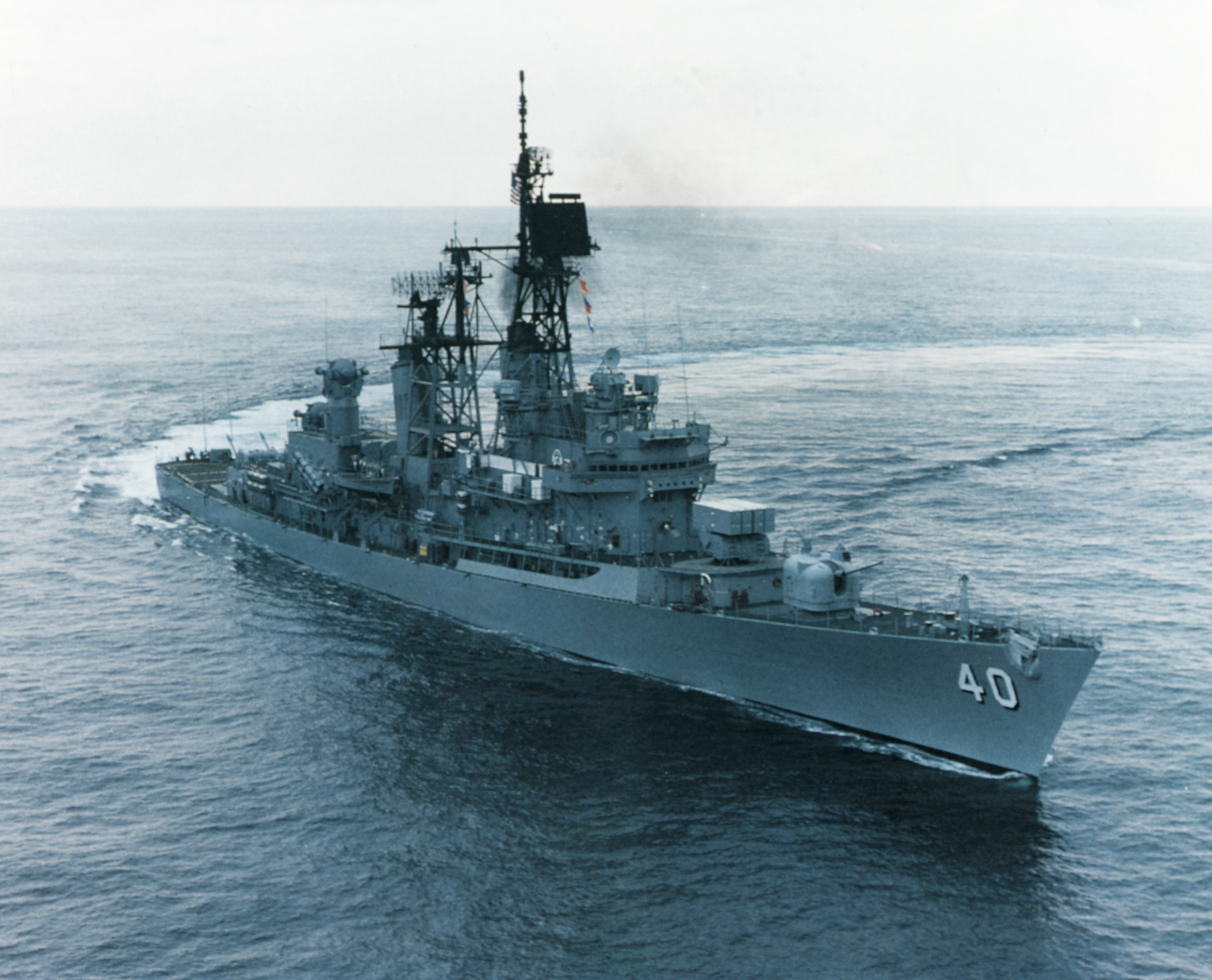 The U.S. Navy guided missile destroyer USS Coontz (DDG-40) underway in the Atlantic Ocean, off the Virginia coast, October 1986.